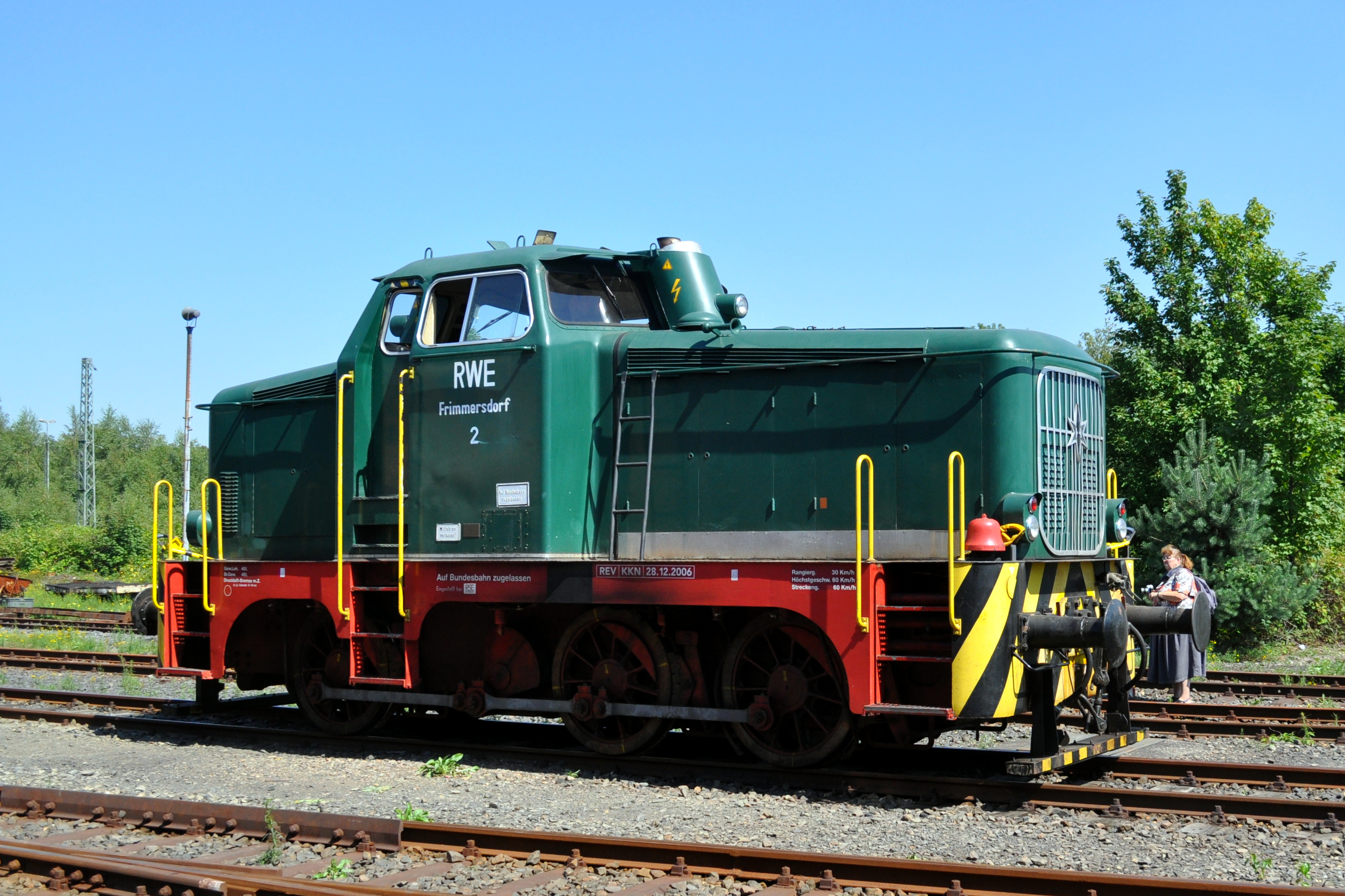 Henschel DH 440 (RWE 2) at the Rheinisches Industriebahnmuseum, Köln-Nippes